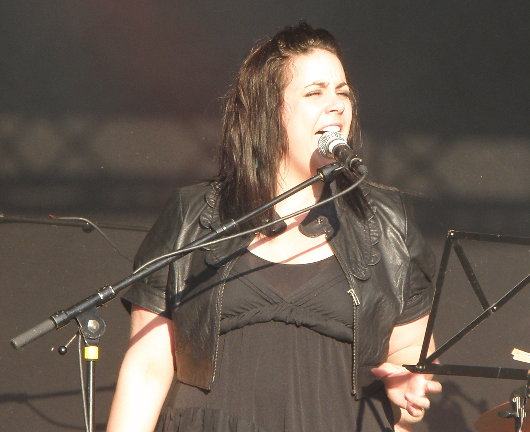 Guðrun Sólja Jacobsen or just Guðrun Jacobsen is a Faroese singer. She currently lives in Denmark, where she studies music. She won a Danish music competition which the Danish national TV Danmarks Radio arranged. The show was called "Stjerne for en aften" (Star for an evening). Guðrun was living in Tvøroyri in the Faroe Islands then and travelled to Denmark for the music contest. This was in 2003. She was only 20 years old when she won the competition. After the final of the show she released an album called "Quiet storm". This photo was taken in her hometown Tvøroyri at a concert which is called Jóansøkufestivalurin, it was held at the Jóansøka festival on 27 June 2009. Føroyskt: Guðrun Sólja Jacobsen er føroysk sangarinna. Hon gjørdist kend, tá hon vann sjónvarps tónleika kappingina "Stjerne for en aften" í 2003. Guðrun er av Tvøroyri men býr í løtuni í Danmark, har hon tekur tónleika útbúgving. Henda myndin varð tikin á Jóansøkufestivalinum á Tvøroyri 27. juni 2009, tvs. seks ár eftir at hon vann kappingina. Guðrun hevur útgivið fløvuna "Quiet Storm", sum seldi fyri tvær gullplátur í Danmark.